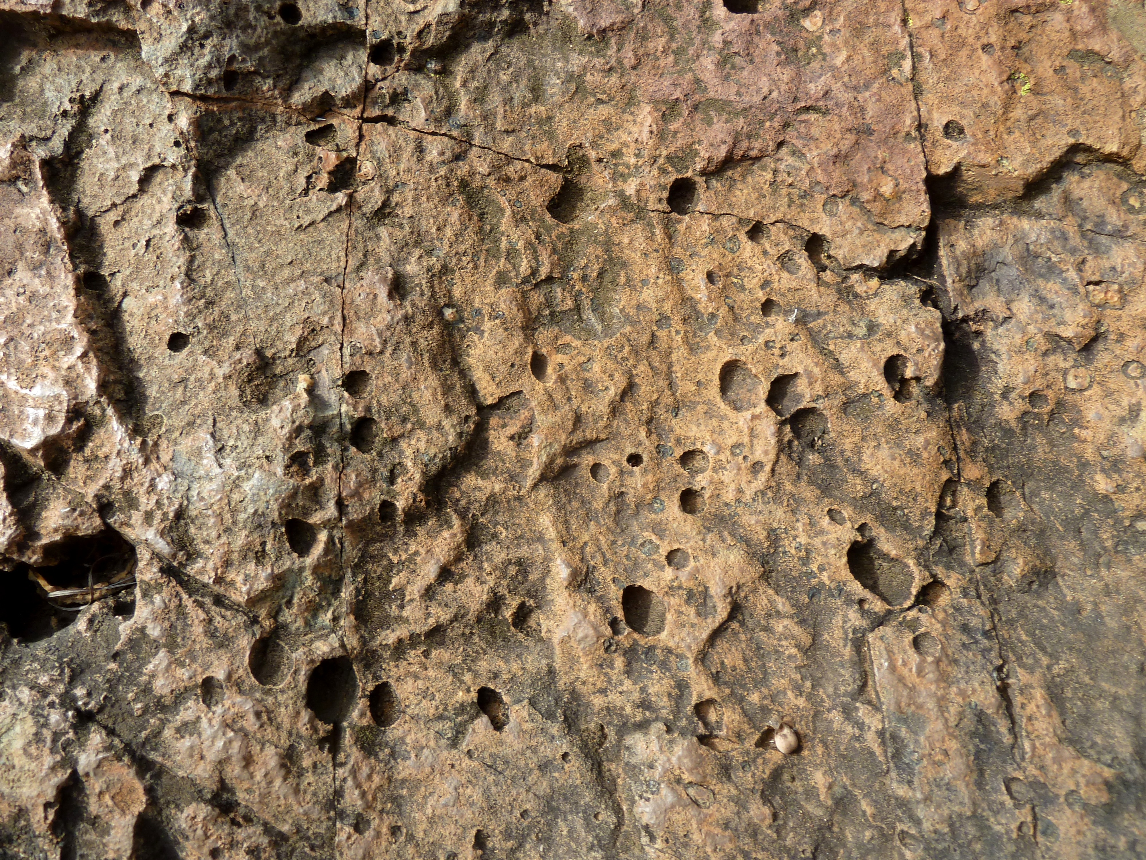 Andesitic basalt of the Hekpoort formation in Faerie Glen Nature Reserve, Pretoria. Percolating water caused accretion of a secondary mineral, so-called amygdales, in the rock vesicles. The vesicles were caused by dissolved magma gasses that effervesced from the lava due to decreased pressure and temperature. The rock is dated to the early Proterozoic, some 2.22 billion years ago.